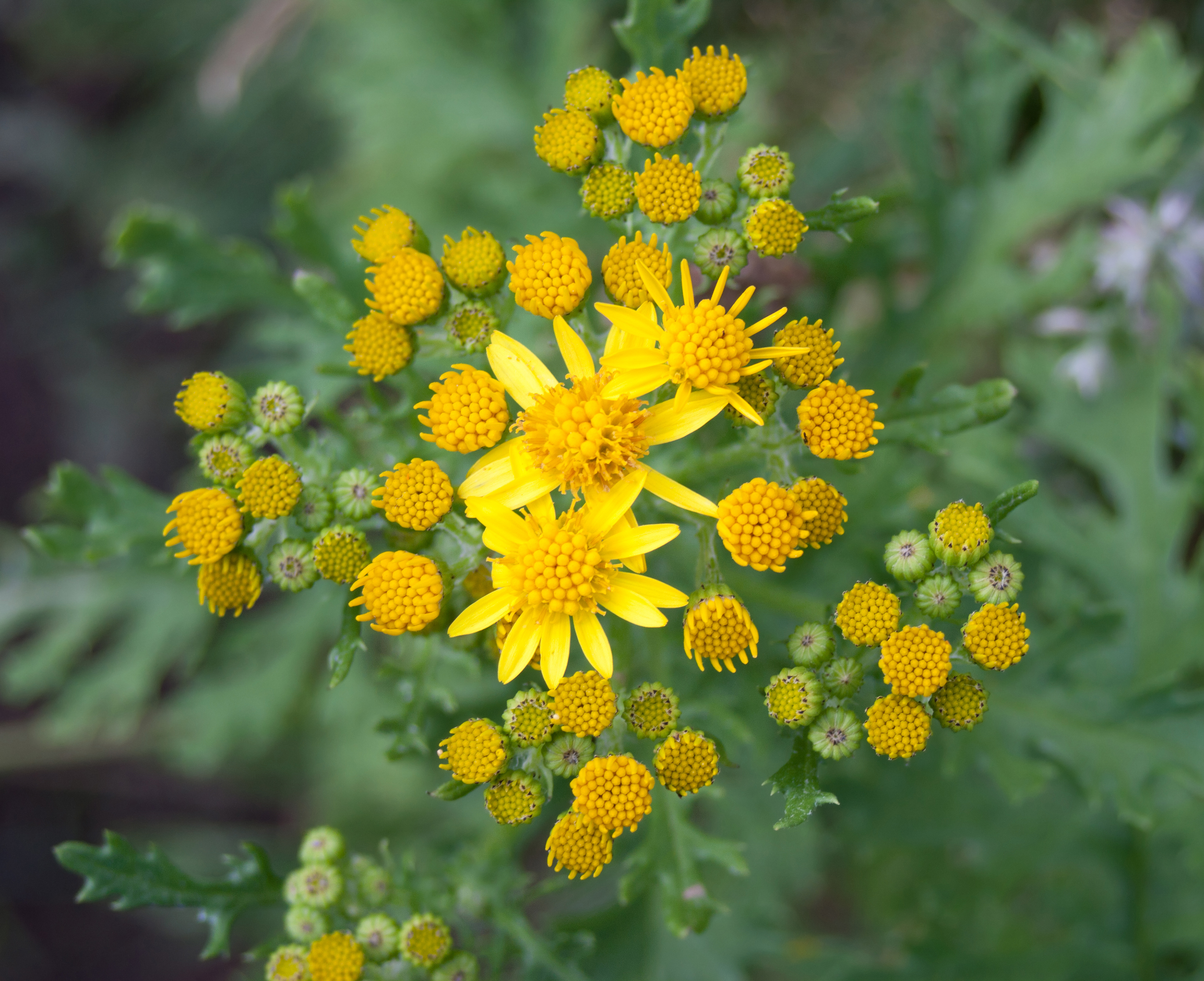 Jacobaea vulgaris, syn. Senecio jacobaea, photographed on Crock Point, North Devon, on the South West Coast Path.